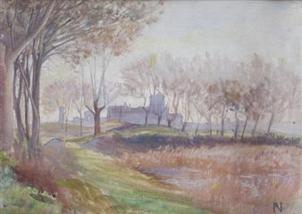 View of a Castle Near Rome